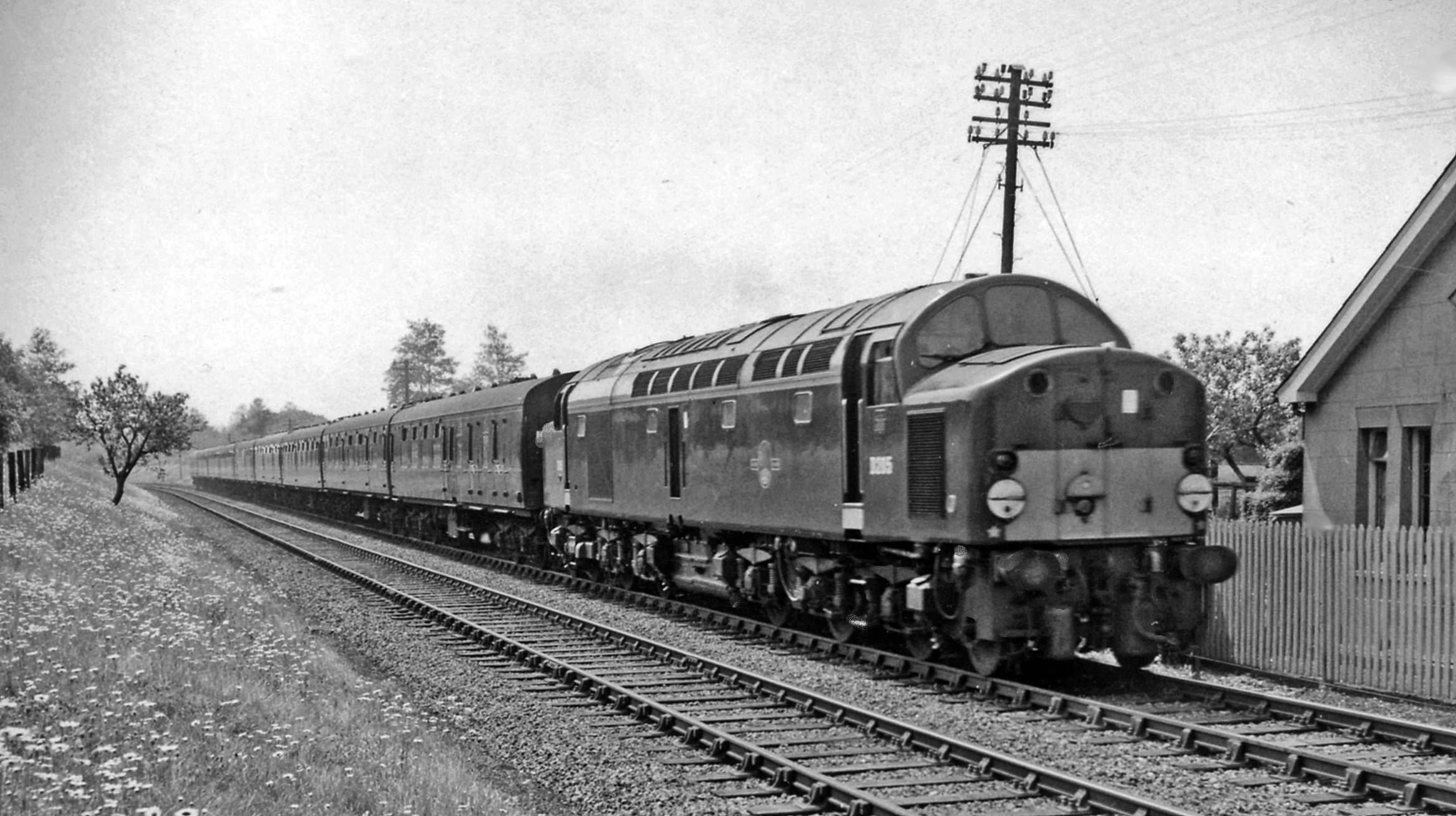 Diesel-hauled Down express approaching Brampton. View southward, towards Ipswich and London; ex-Great Eastern London - Ipswich - Lowestoft/Yarmouth line. The 10.10 Liverpool Street - Yarmouth (South Town) is head by No. D205, an English-Electric 2,000 hp Type 4 1-Co-Co-1 Diesel.